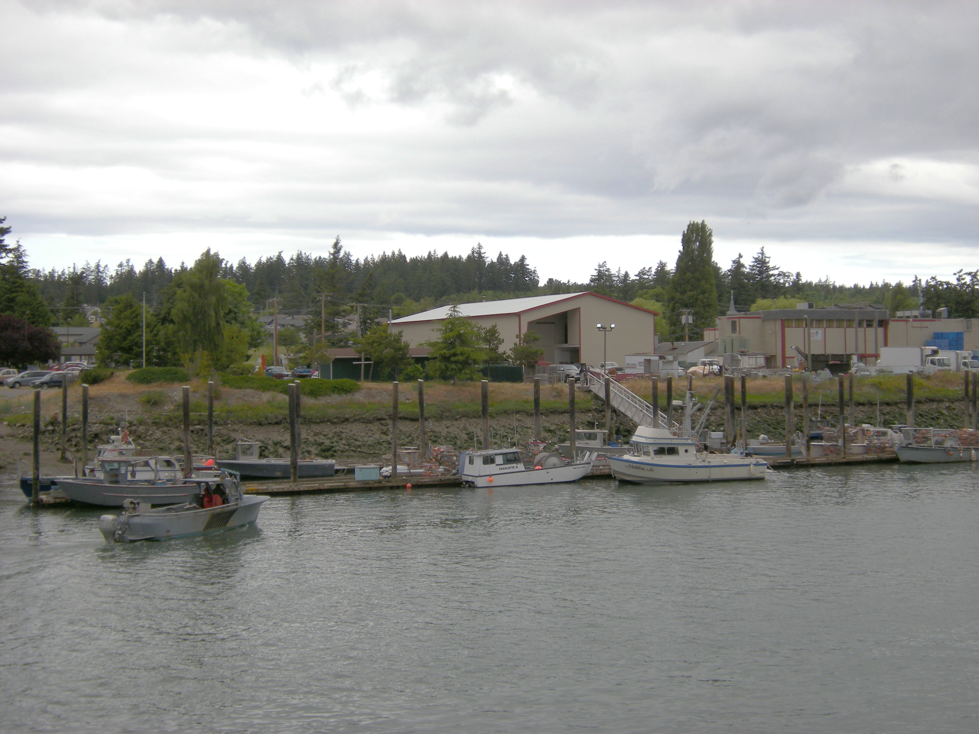 Looking across Swinomish Channel from La Conner, Washington to the fishing port on the Swinomish Reservation.